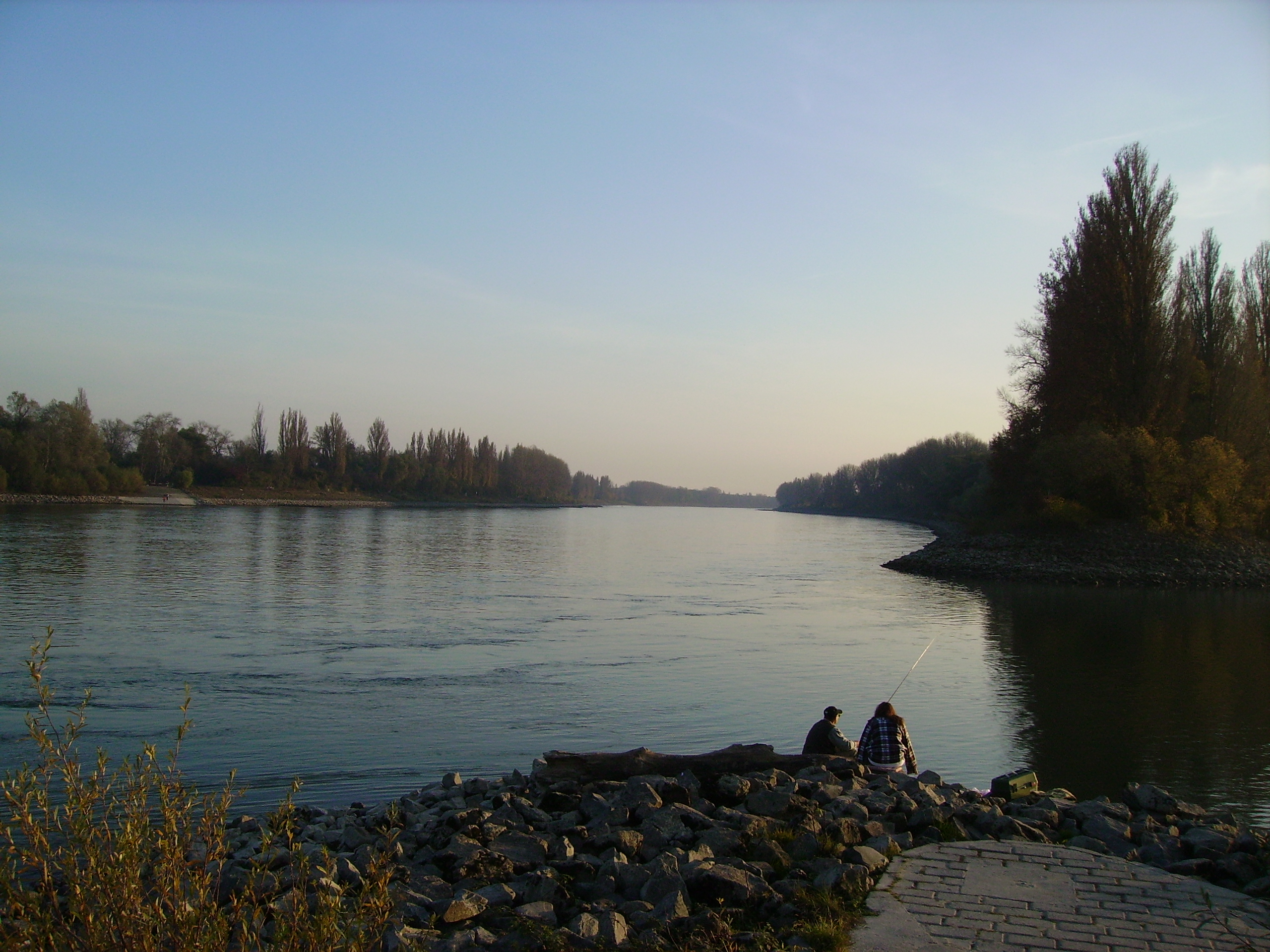 Description: the Rhine river at Altrip, Germany) Source: own photography Date: November 2005 Author: --Immanuel Giel 10:55, 17 November 2005 (UTC) Other versions: none Altrip